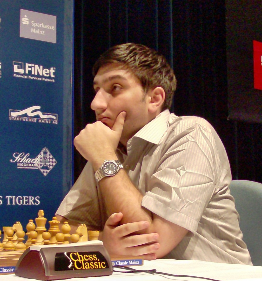 Vugar Gashimov, chess grandmaster from Azerbaijan